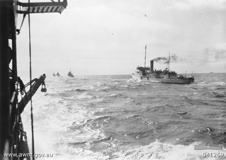 Sourced from: Copyright: The AWM record for this photo states that the copyright status is 'clear'. The photo was taken in 1940. AWM Caption: At Sea. 1940-12. An Australian Navy minesweeping fleet comprising HMA Ships Swan, Warrego, Doomba and Orara at work off the Victorian coast near Wilson's Promontory.